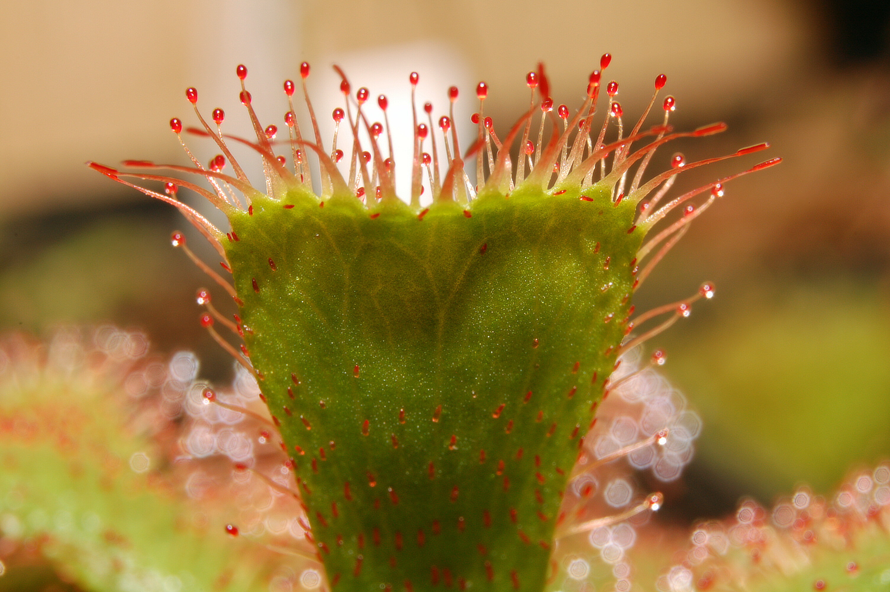 Drosera slackii